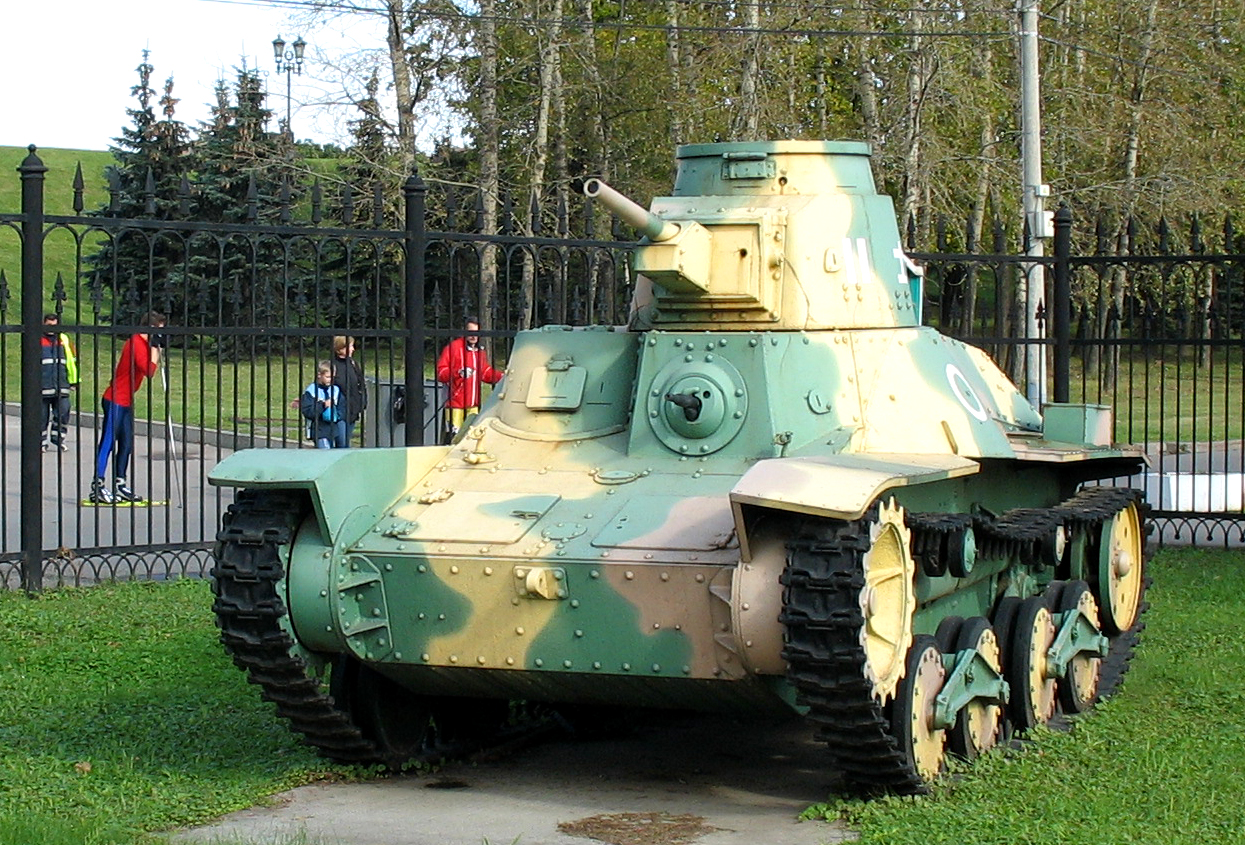 Light tank Ha-Go (Type 95). It was captured during the Red Navy amphibious operation at the island of Shikotan in August, 1945.